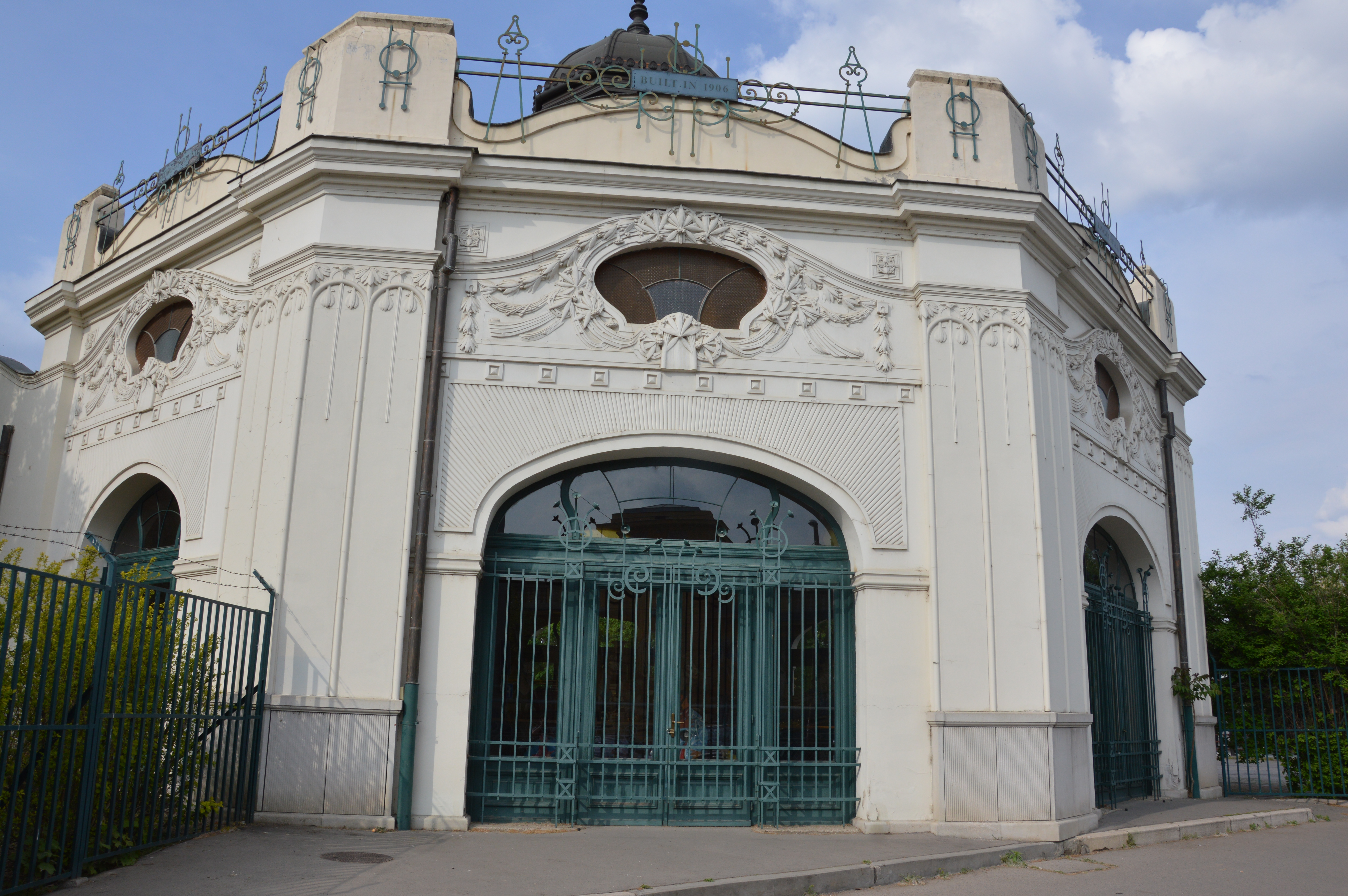 The Memorial Carousel in Budapest's defunct Vidampark.